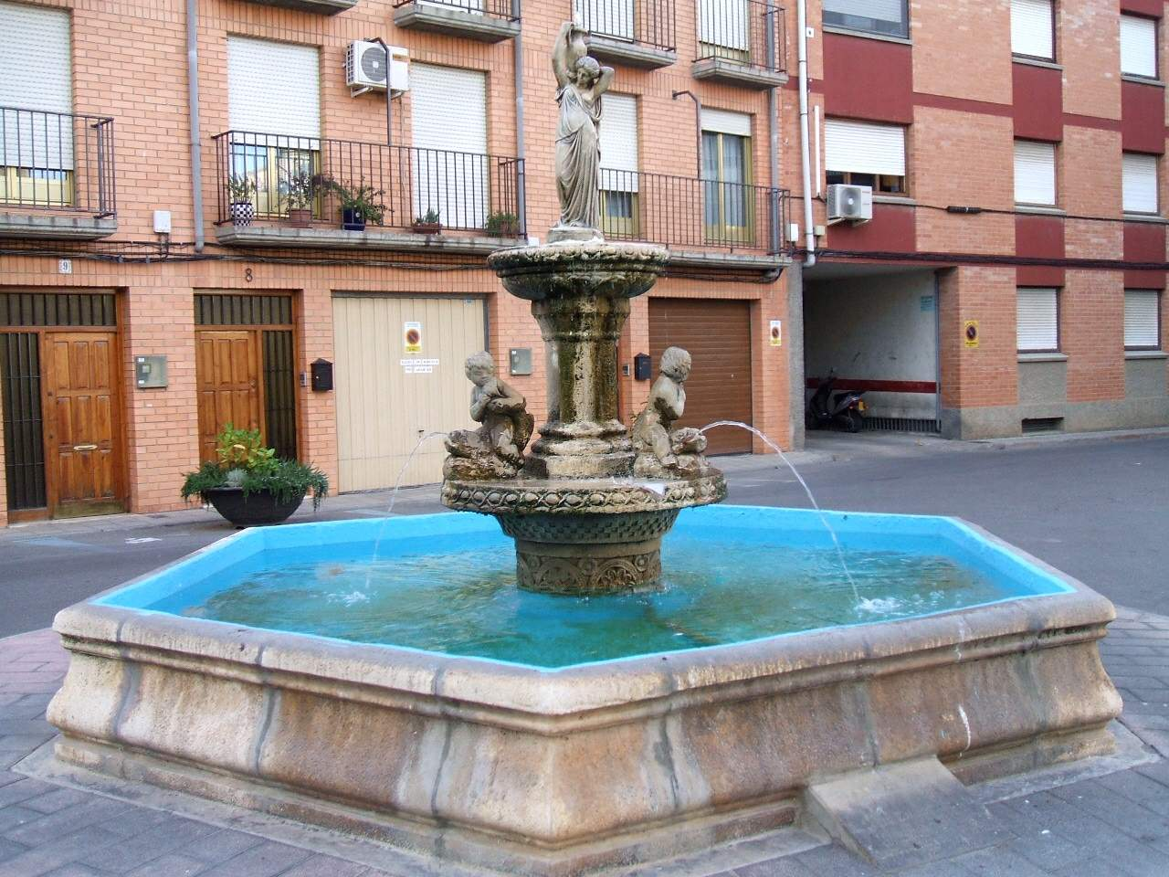 Fuente en Alagón, provincia de Zaragoza (Aragón, España)